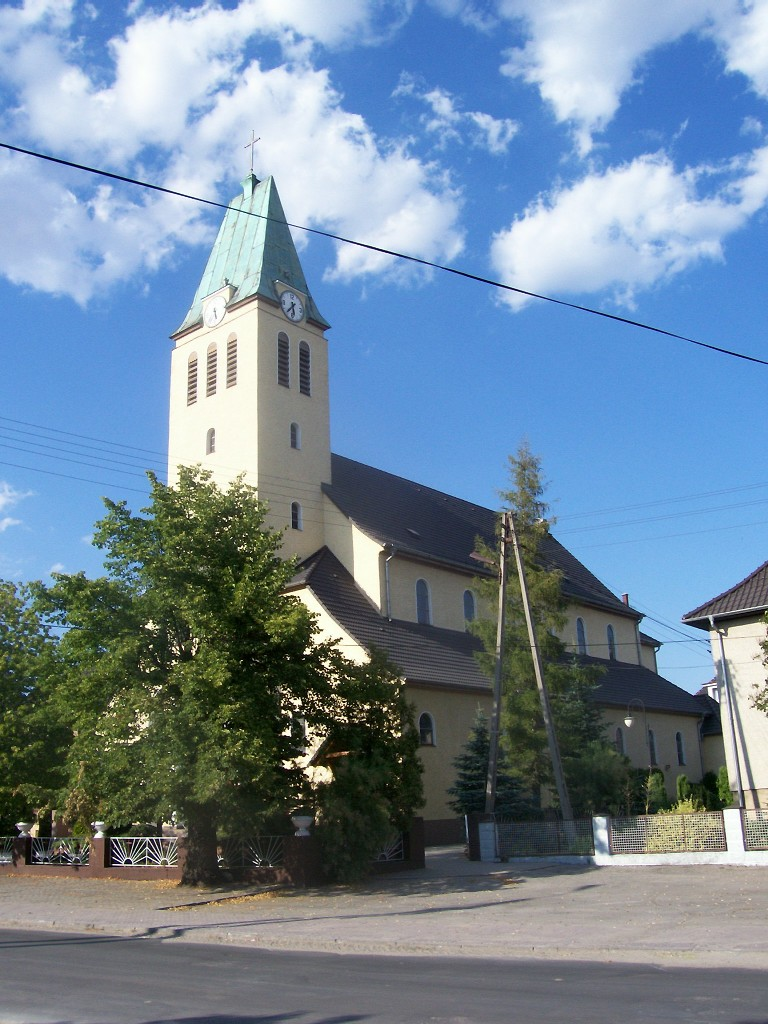 The church of the Assumption of the Mother of God, in Opole, Poland